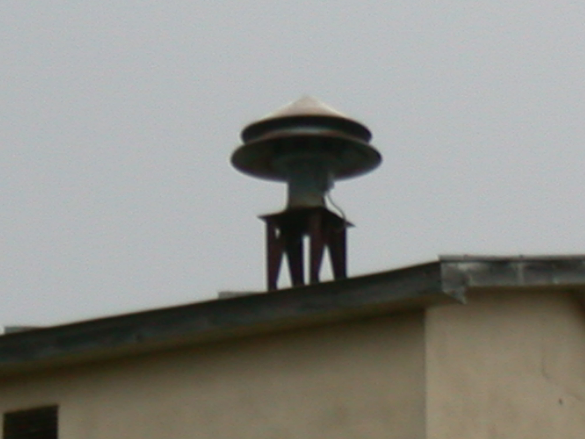 Horn for public warning system, Kårböle fire station, Sweden.